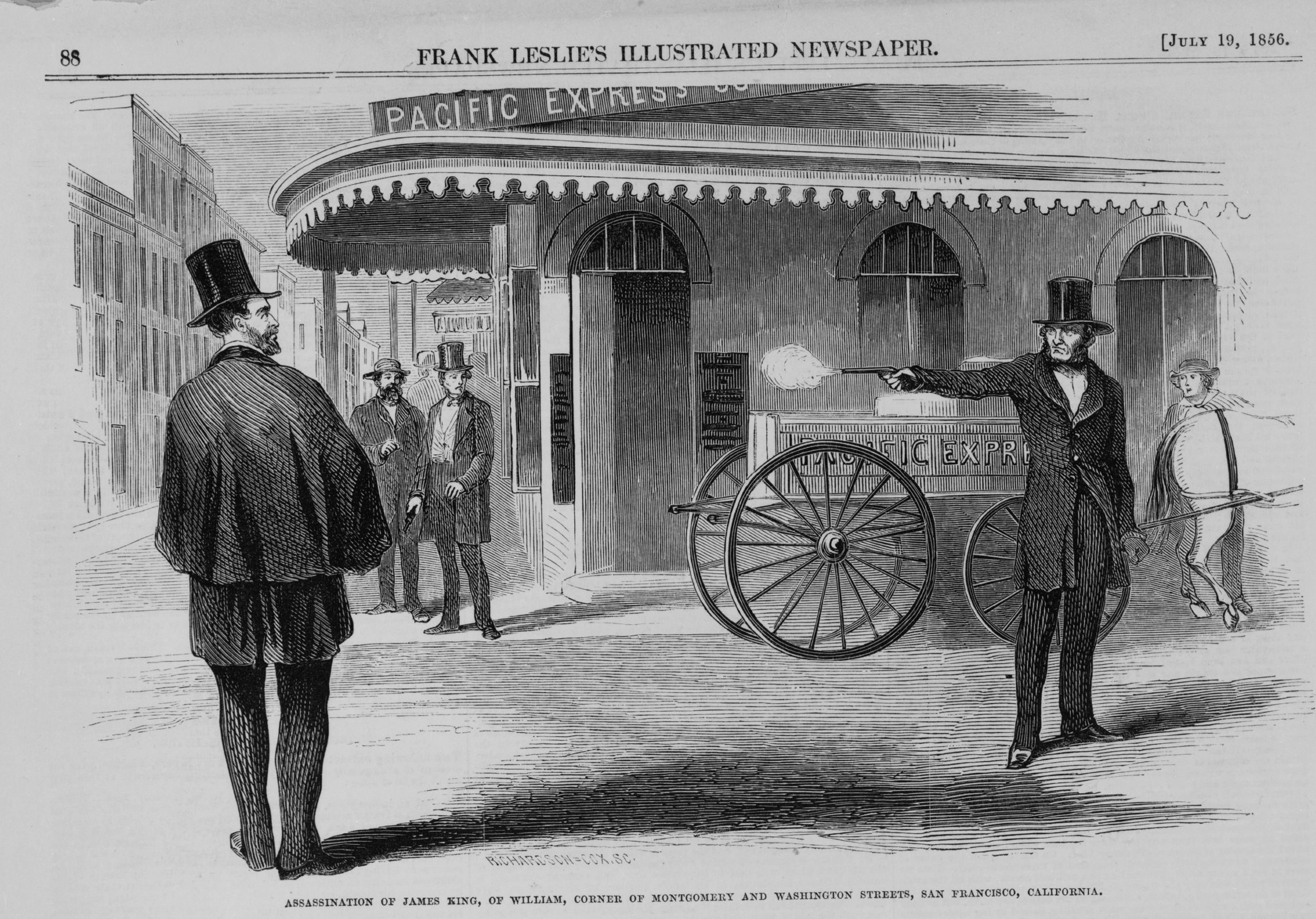 Title: Assassination of James King, of William, corner of Montgomery and Washington Streets, San Francisco, California / / Richardson=Cox, sc. Execution of James P. Casey and Charles Cora in front of the vigilance committee rooms, San Francisco, California Abstract/medium: 1 print : wood engraving.